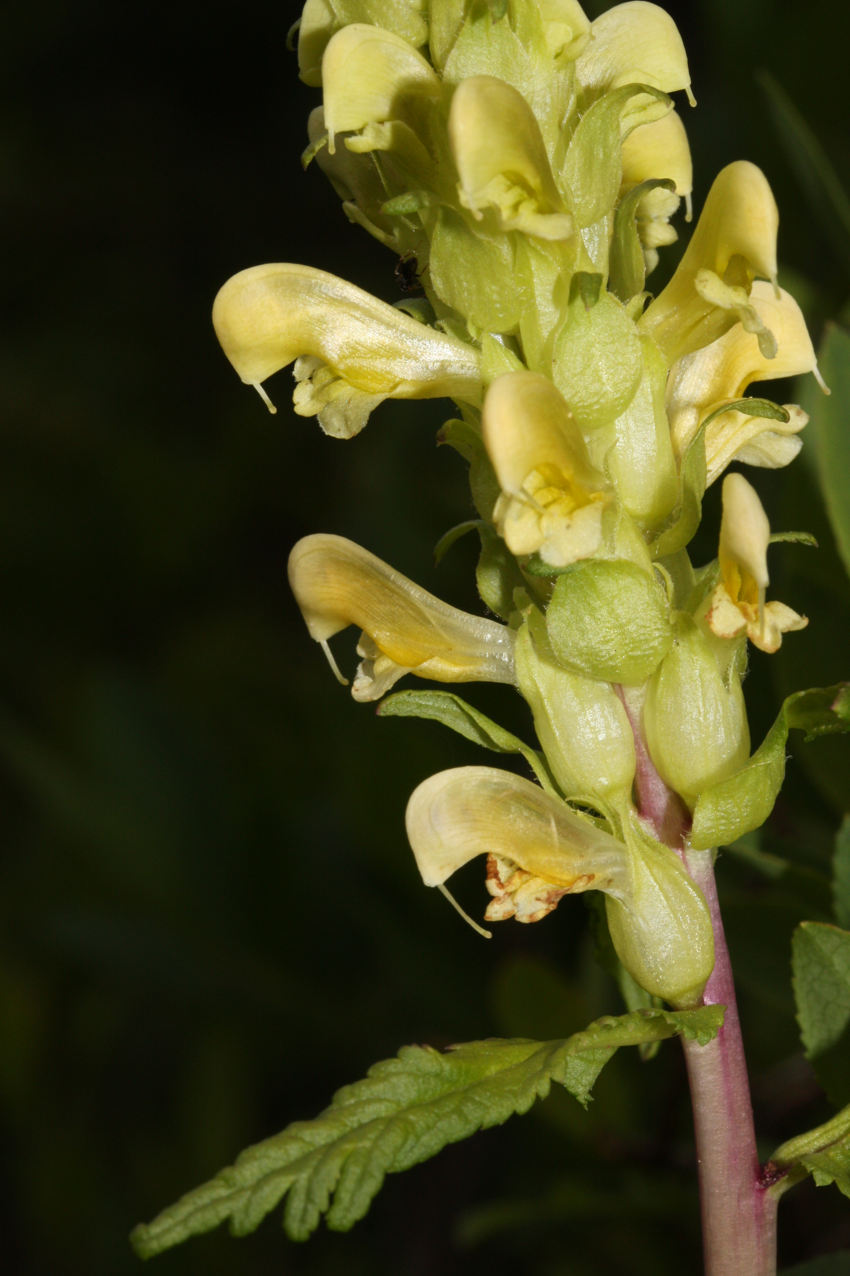 Bracted Lousewort